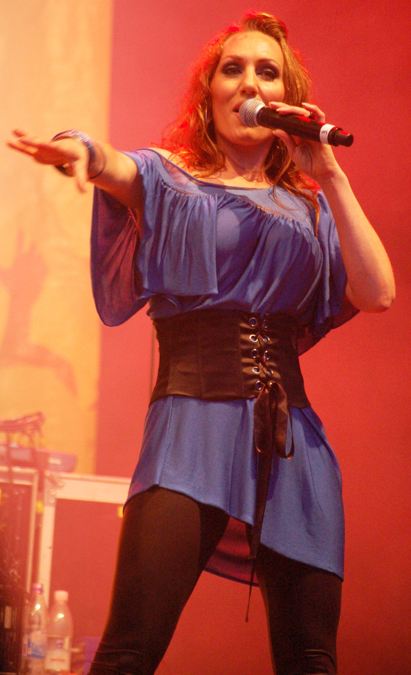 Lina Hedlund member in the group Alcazar